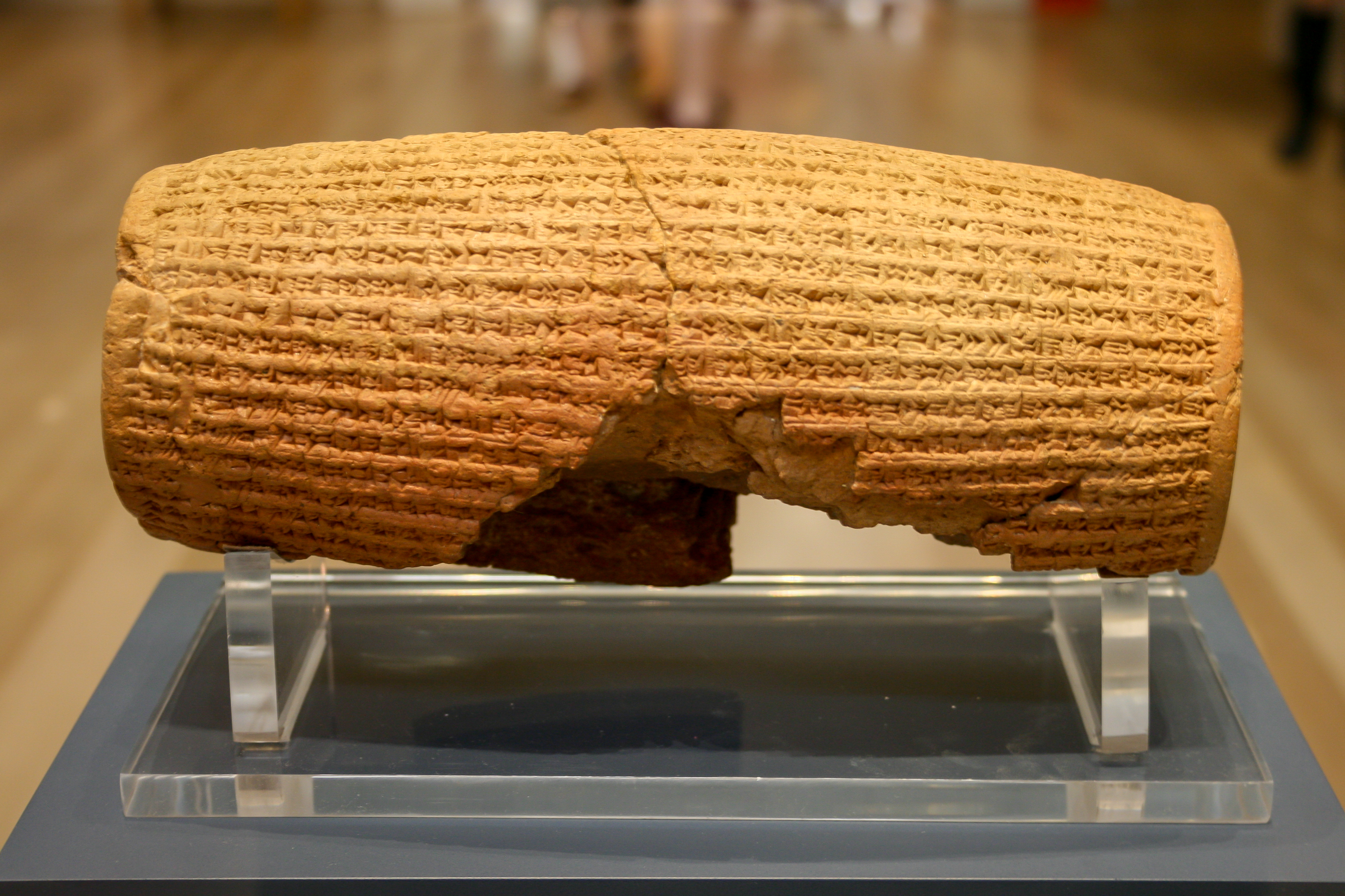 Cyrus cylinder in the British Museum.